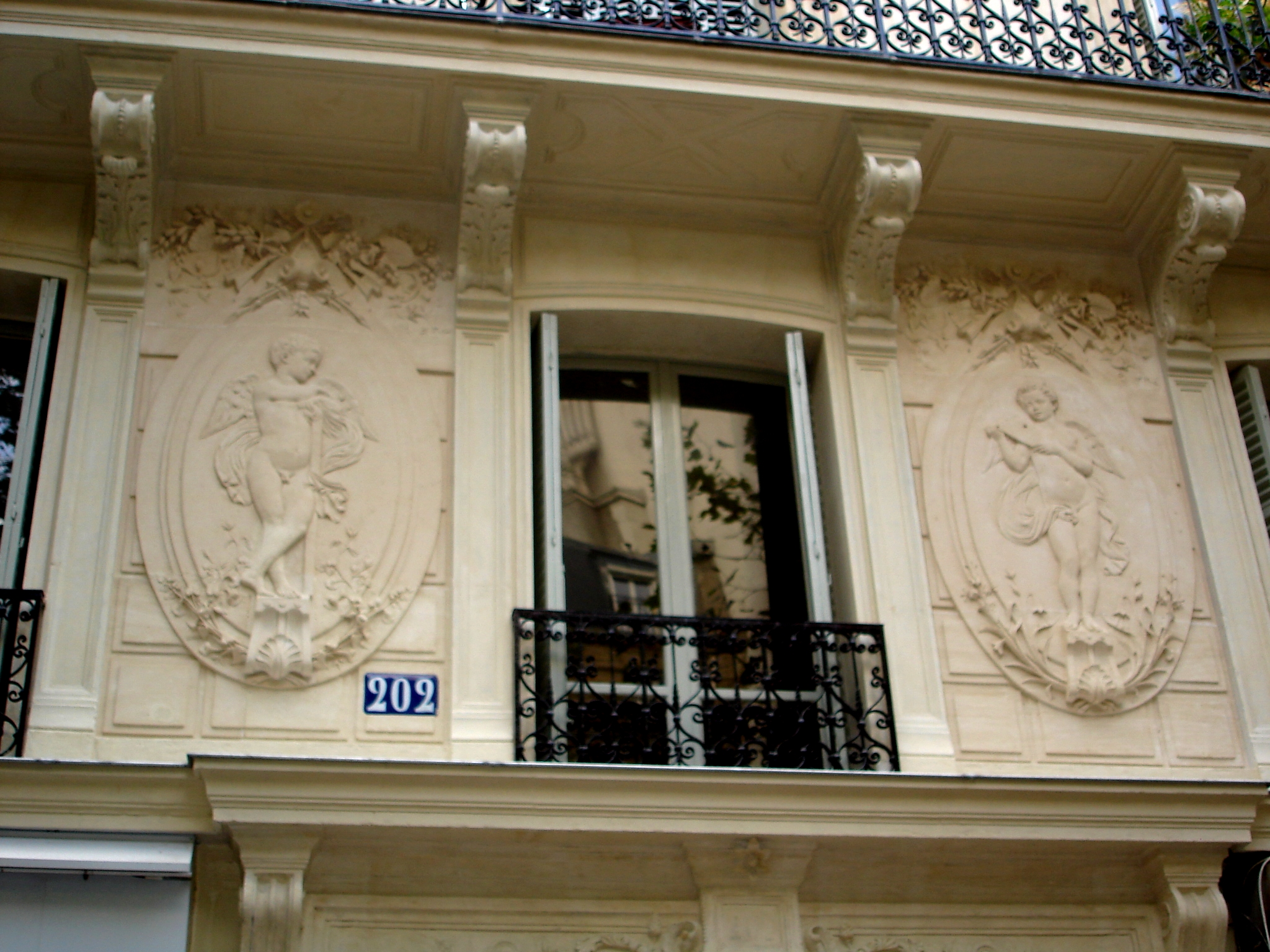 Apartment block, 202 Boulevard Voltaire with two putti bas-reliefs.